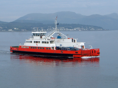 MV Sound of Sanda operated by Western Ferries, a Dunoon based Scottish ferry operator IMO Number: 8928894 MMSI Number: 235008136 Callsign: MWVB5 Length: 48 m Beam: 14 m